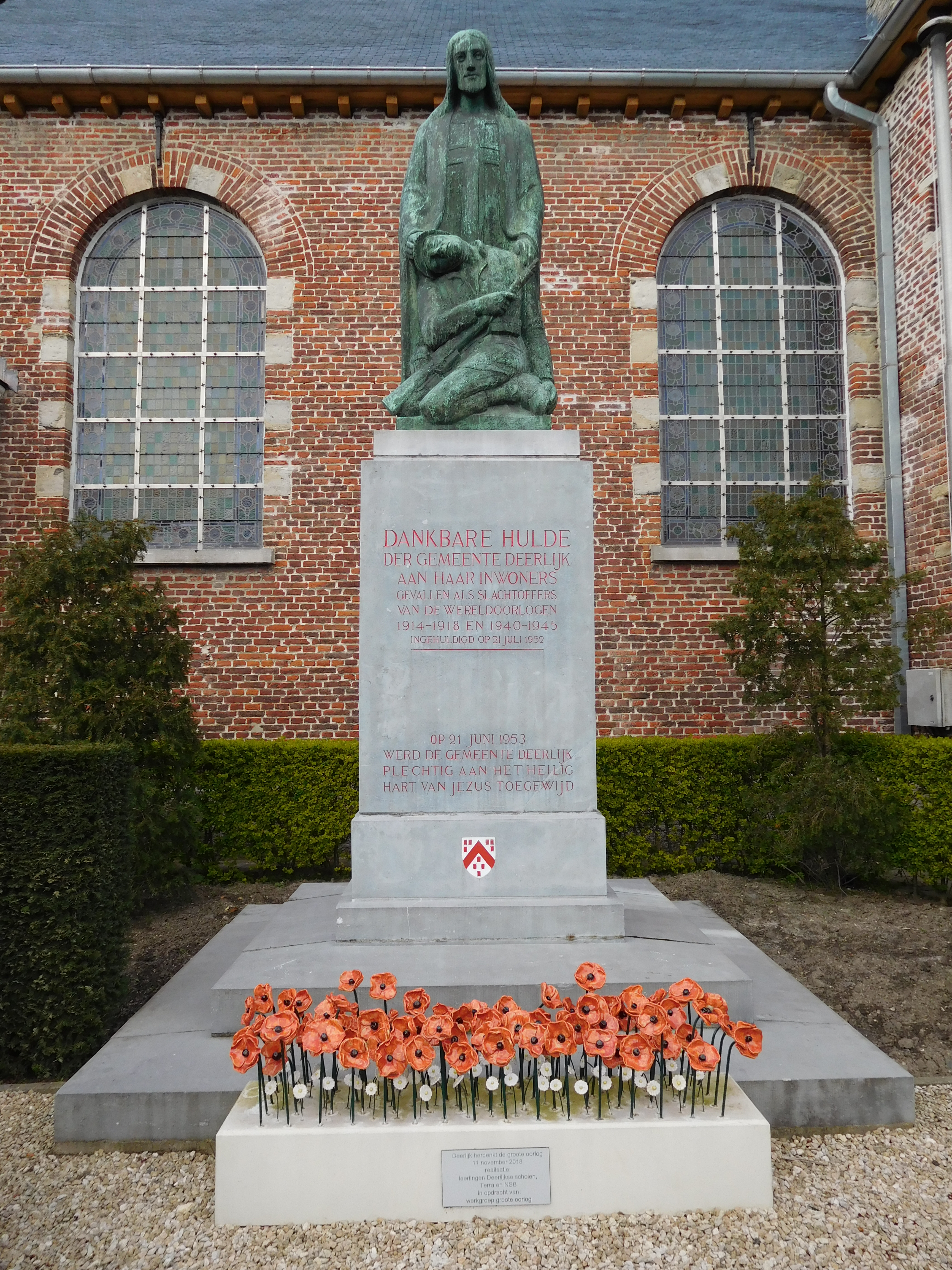 War memorial in Deerlijk